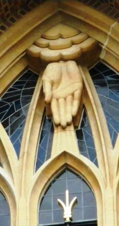 Carving above the arch of the south garth of Guildford Cathedral